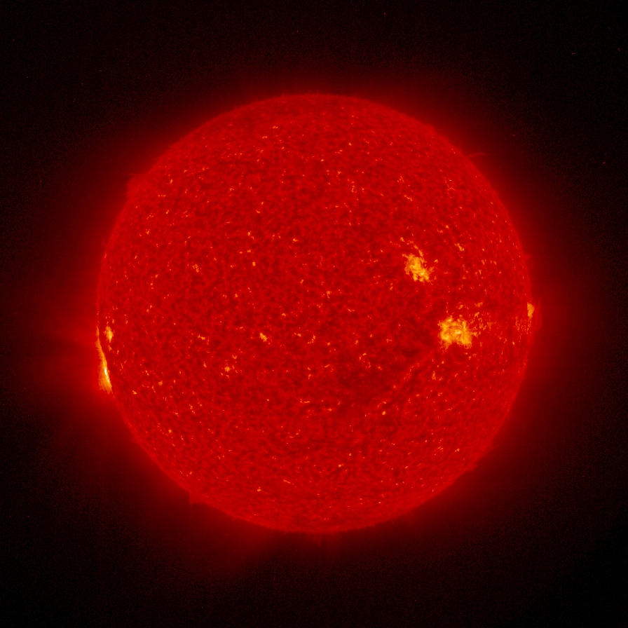 Orange (304 Angstroms) full disk: The orange image shows portions of the sun's atmosphere at 60,000 to 80,000 C taken on Dec. 4 by STEREO's SECCHI/EUVI telescope.